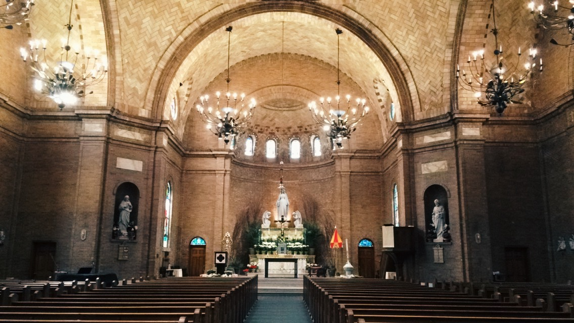 The altar inside the Basilica Shrine of St. Mary in Wilmington, North Carolina